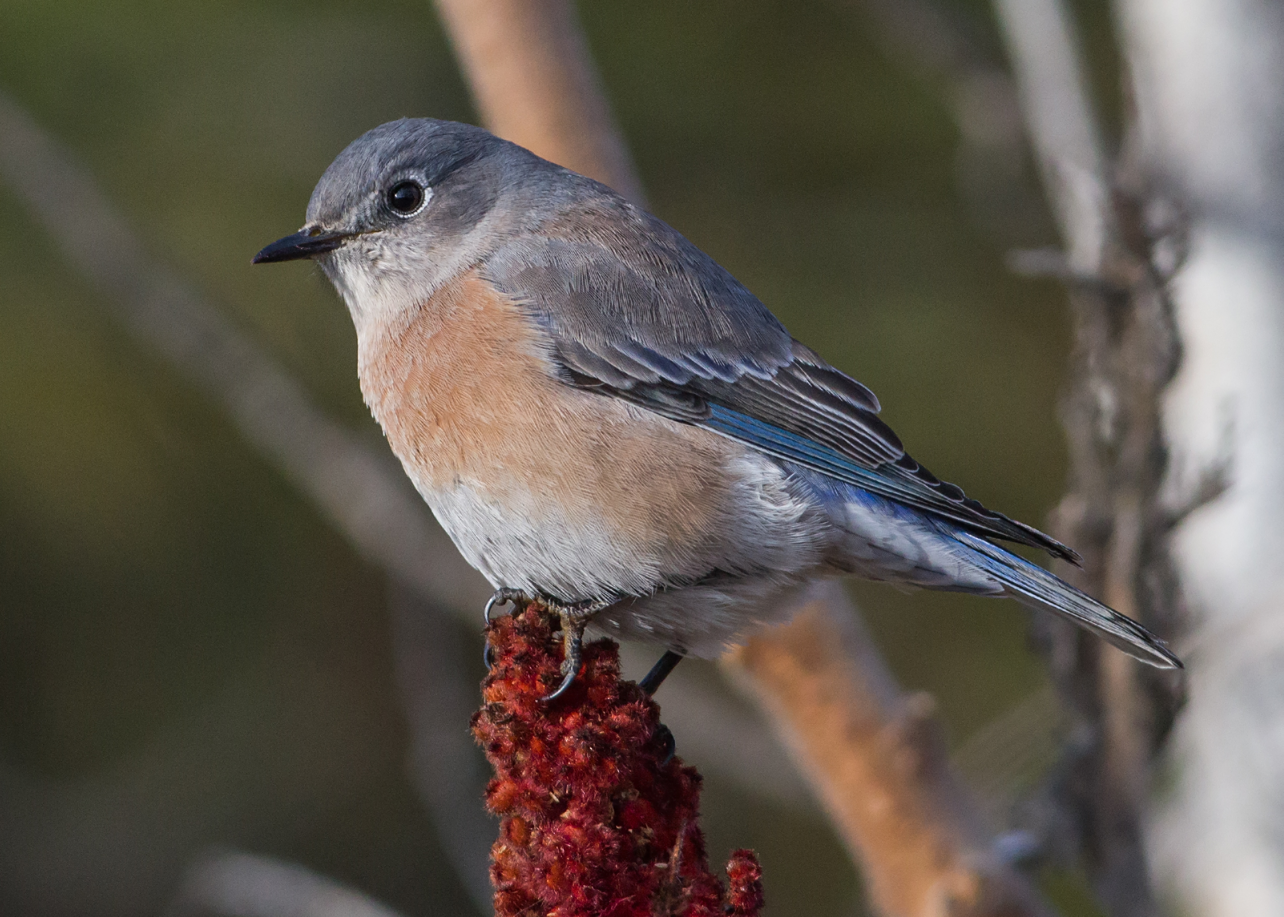 Western bluebird female in late November on the UBC Okanagan campus in Kelowna, BC